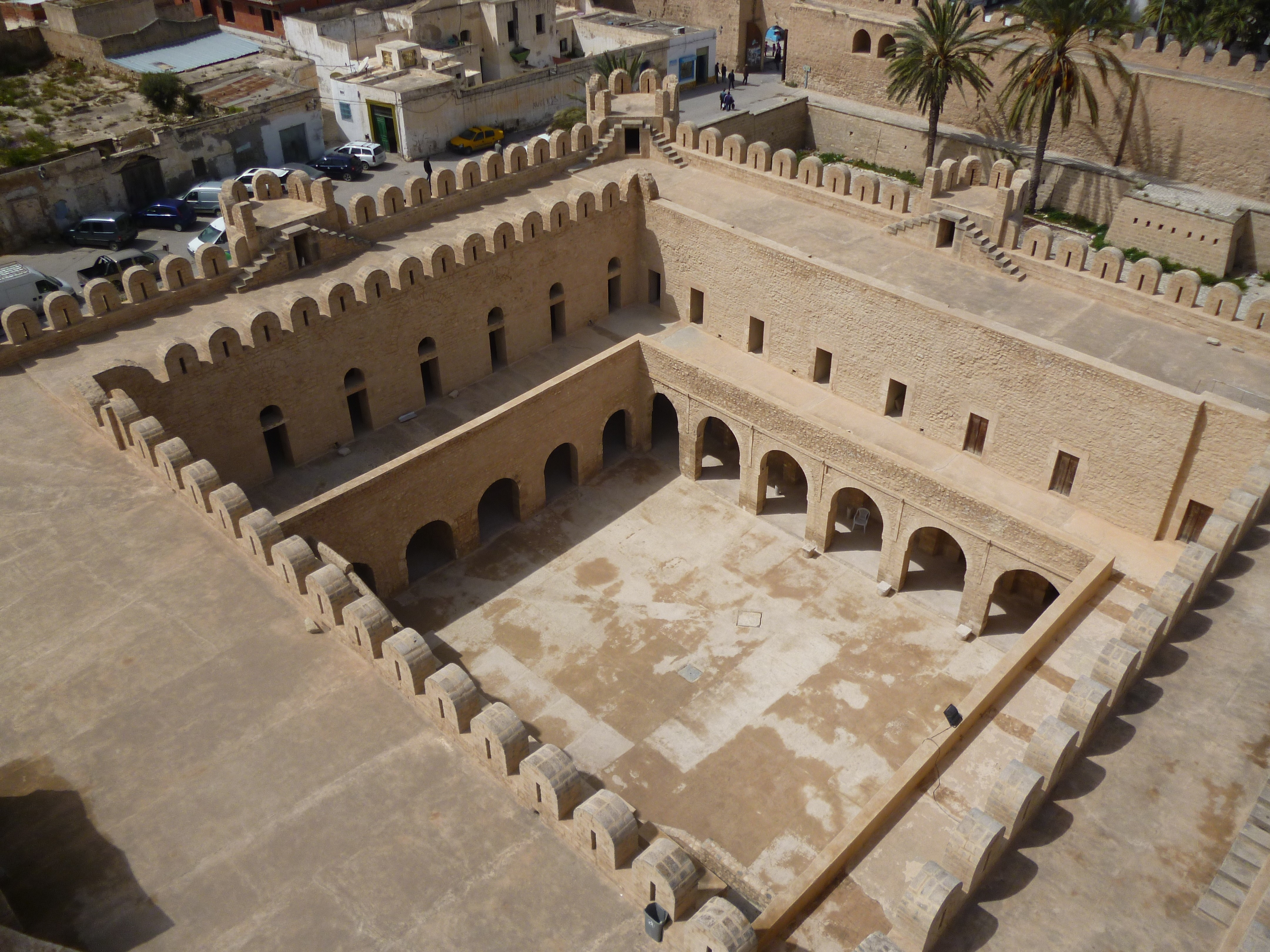 Medina of Sousse (Tunisia)